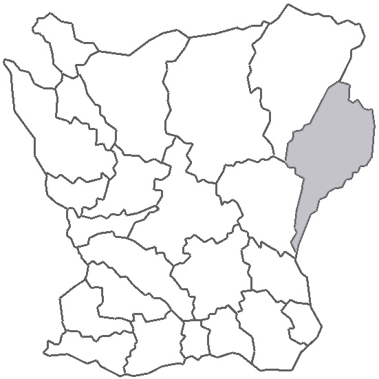 Map describing the location of Villand Hundred in Skåne County, Sweden.